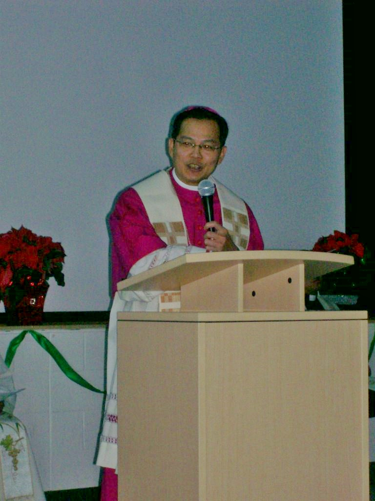 Bishop Vincent Nguyen seen here speaking at the Official Opening and Solemn Blessing of the Toronto Catholic District School Board's newest elementary school, Blessed Pier Giorgio Frassati Catholic School in Scarborough, Ontario, Canada on November 20, 2013.